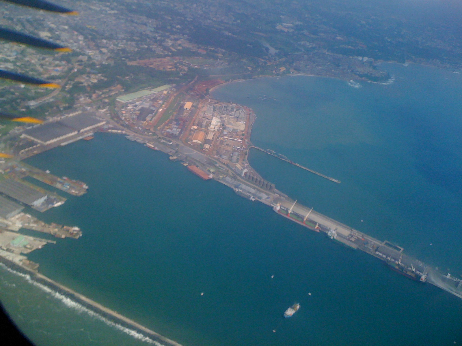 Taken by Mac-Jordan Degadjor with a Apple iPhone 3G camera. A aerial view of Oil platform and Takoradi Harbour in Sekondi-Takoradi.